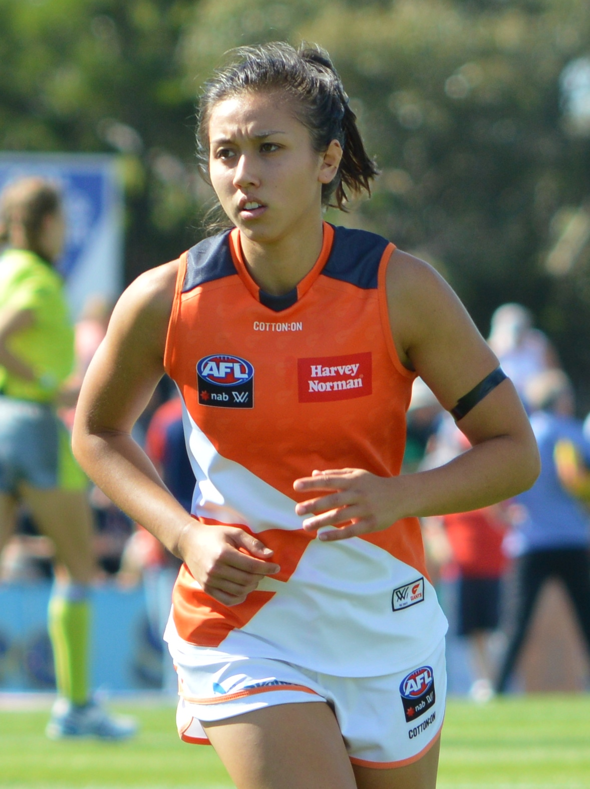 Rebecca Beeson during the round 1, 2018 AFL Women's match between Melbourne and Greater Western Sydney